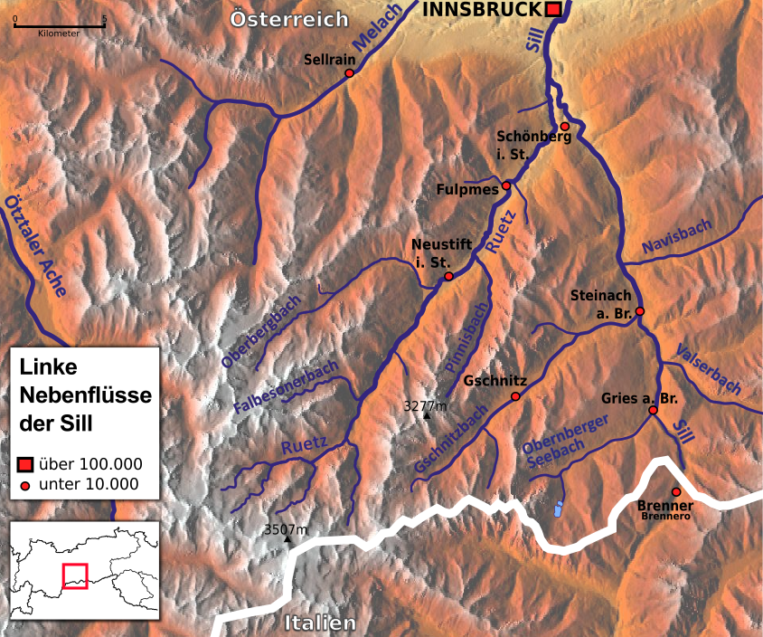 Left tributaries of the Sill river (Ruetz, Gschnitzbach, Obernberger Seebach) with Melach river, Navisbach and Valserbach